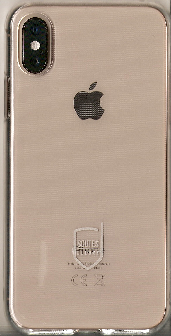 Apple iPhone Xs, rear (gold) with transparent casing